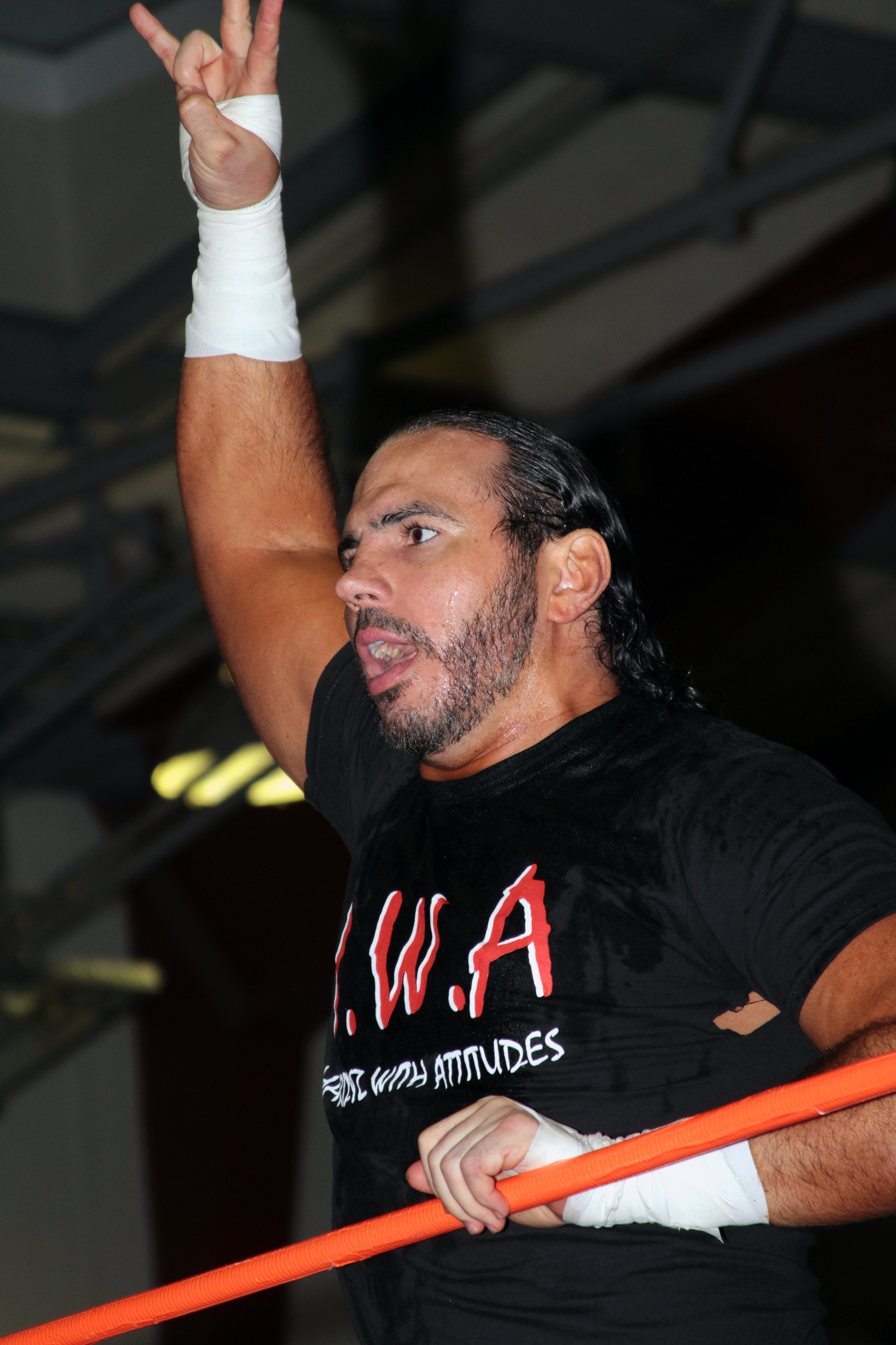 Paparazzo Presents a photo of professional wrestler Matt Hardy taken at the Northeast Wrestling "Spring Slam" event held on April 8, 2016 in Livingston Manor, New York.